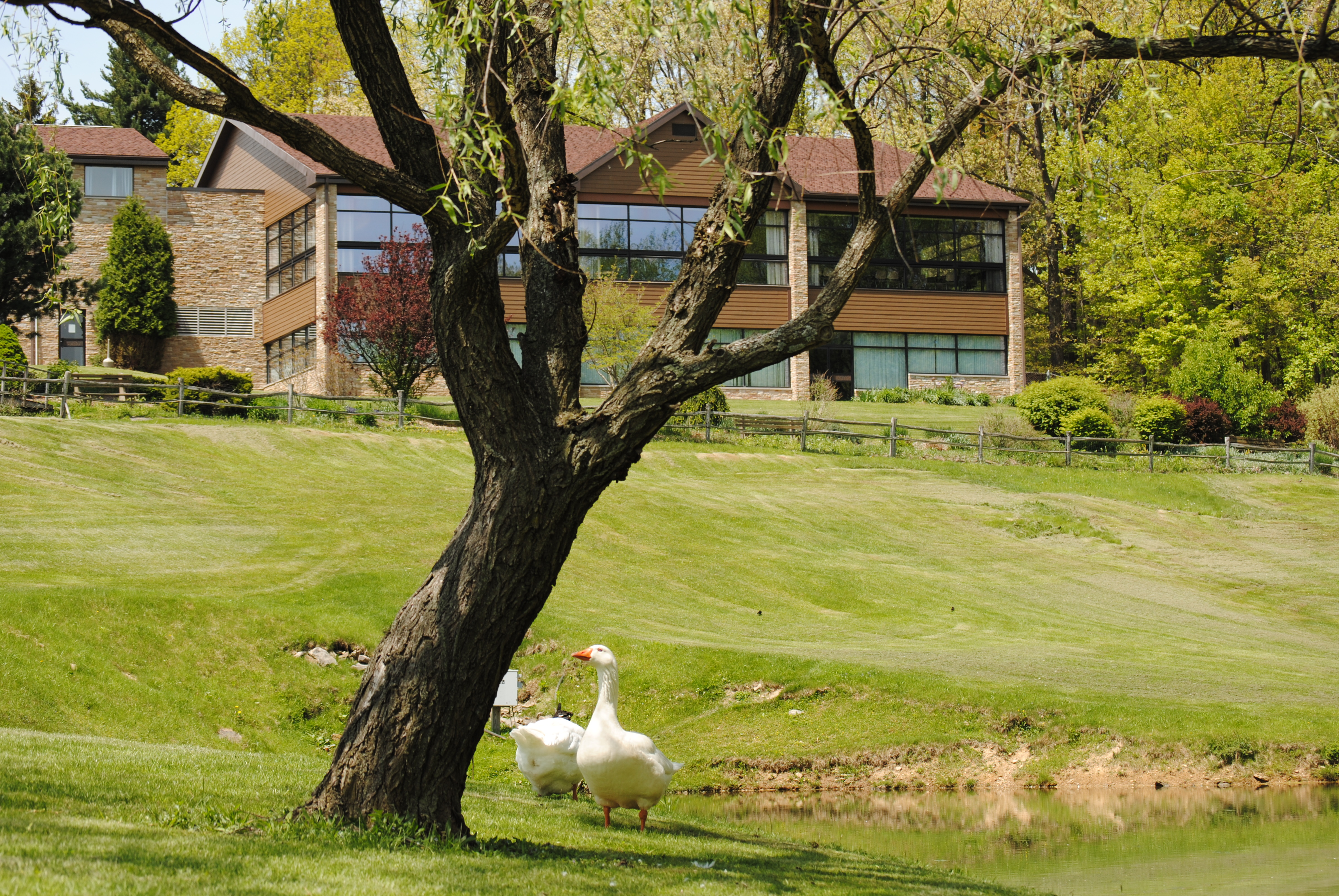 The Dining Hall and The Antiochian Village Conference and Retreat Center, Ligonier Pennsylvania.